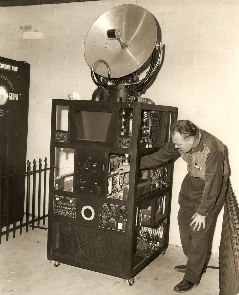 Museum founder Doc Jones examines his Man From Mars Machine inside Jones' Fantastic Museum which was in Seattle, USA during the period 1960-1980.